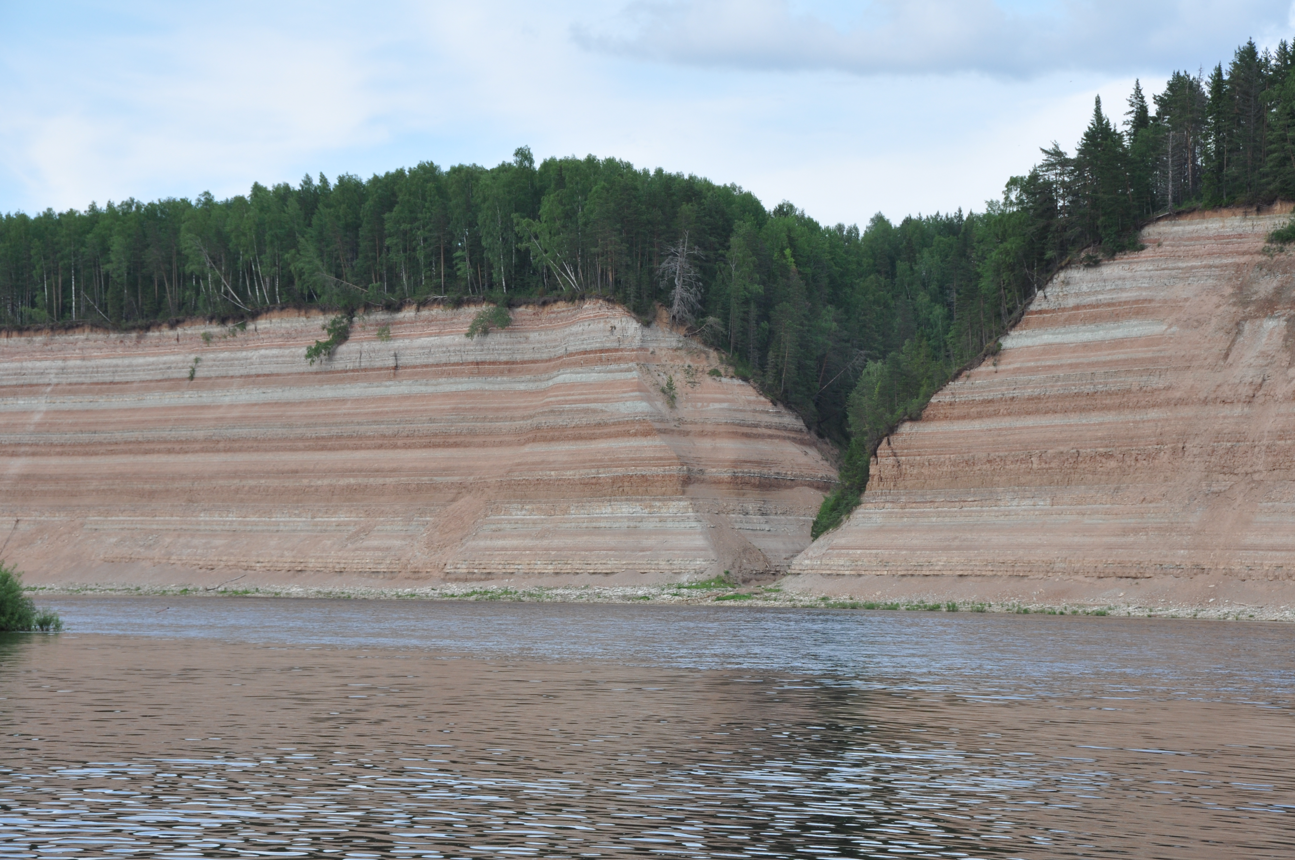 Cliff of alternating layers of mudstone and marl, at Opoki, near Poldarsa on the Sukhona river in the Vologda oblast of Russia. The cliff is about 60 metres high and the rocks are of late Permian age.